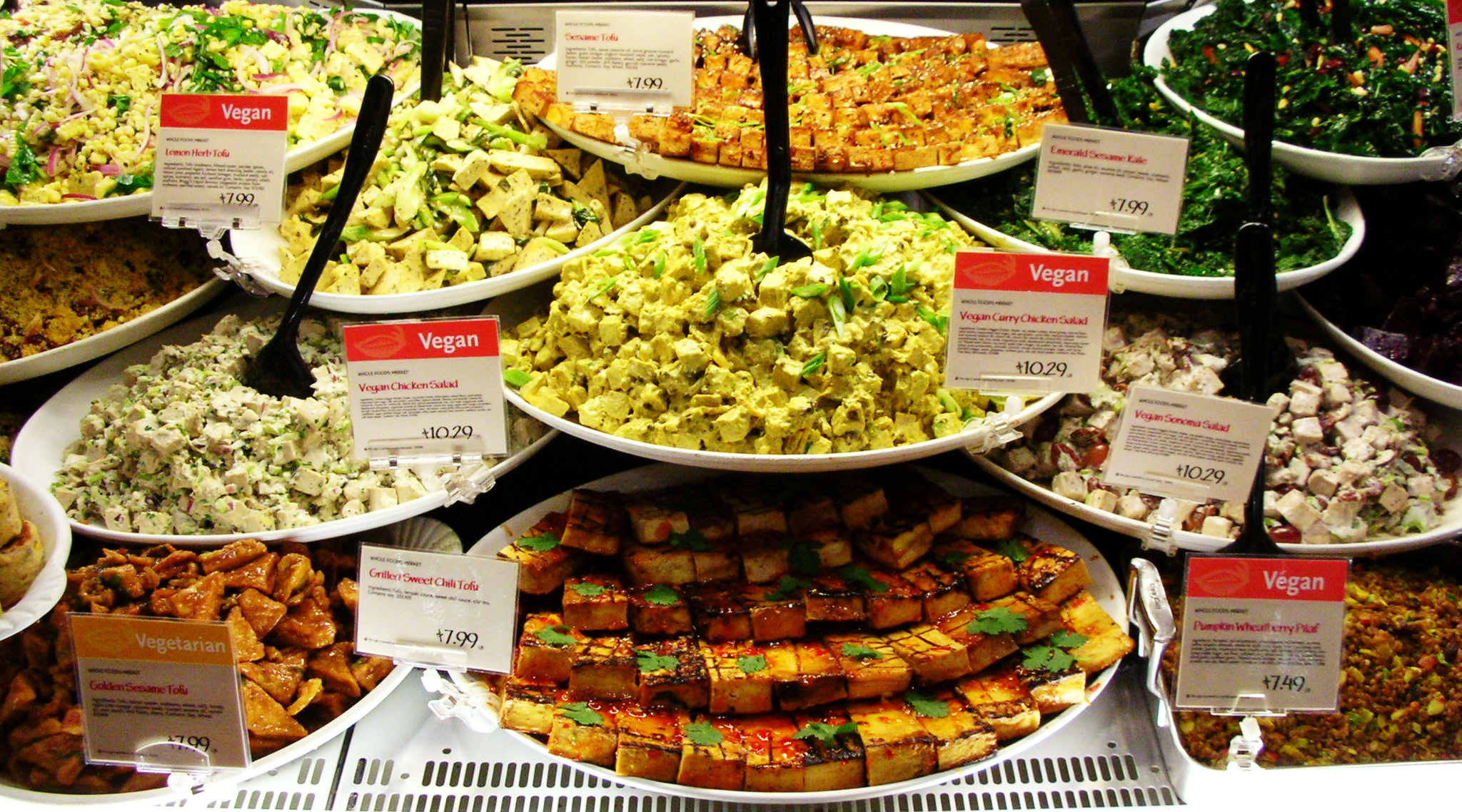 Lemon Herb Tofu, Sesame Tofu Sticks, Emerald Kale, Gardein Chicken Salad, Gardein Curry Chicken Salad, Gardein Sonoma Chicken Salad, Golden Sesame Tofu, Grilled Sweet Chili Tofu, and Pumpkin Wheatberry Pilaf